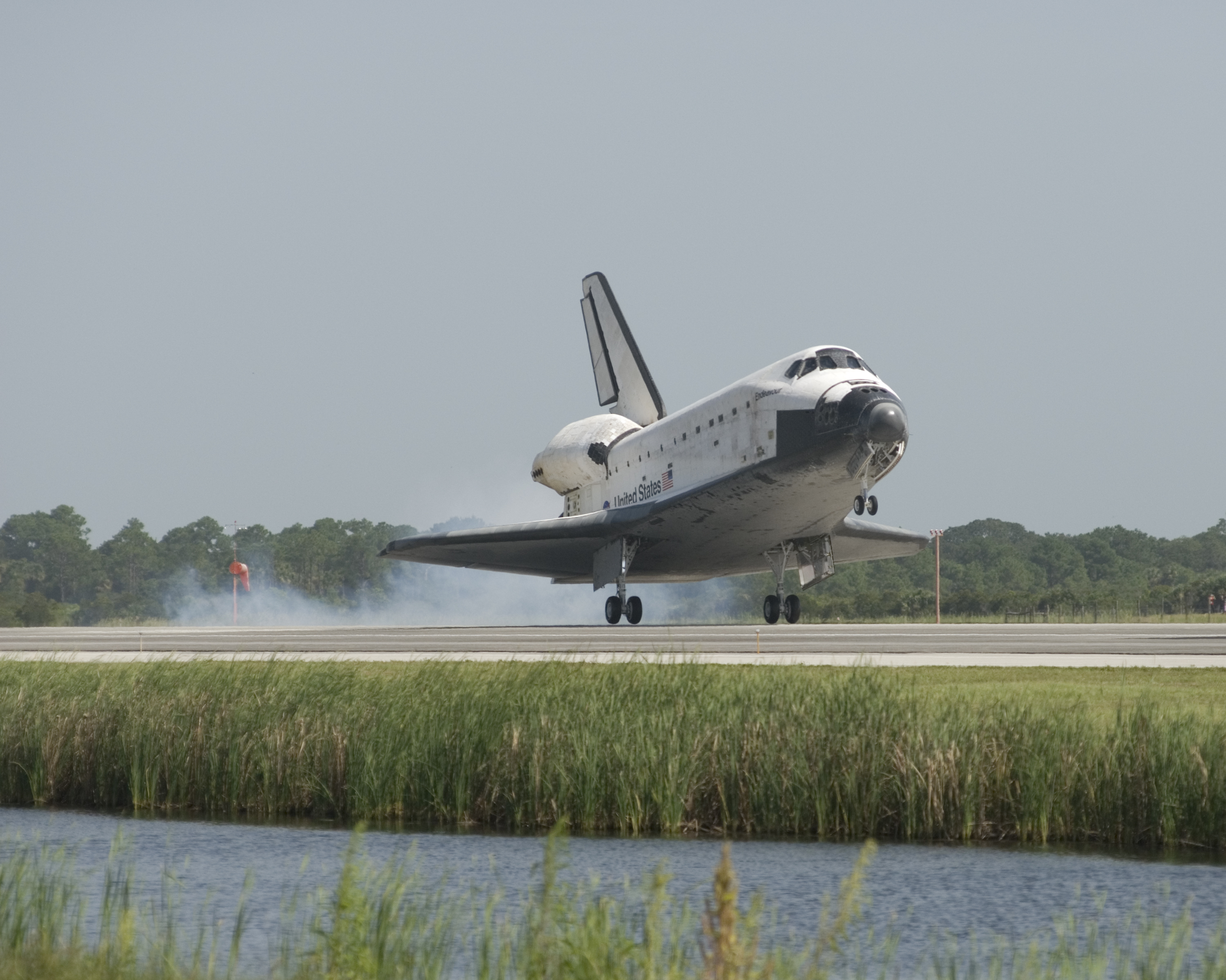 CAPE CANAVERAL, Fla. – Space shuttle Endeavour kicks up dust as it touches down on Runway 15 at NASA's Kennedy Space Center in Florida to complete the 16-day, 6.5-million mile journey on the STS-127 mission to the International Space Station. Endeavour landed on orbit 248. Main gear touchdown was at 10:48:08 a.m. EDT. Nose gear touchdown was at 10:48:21 a.m. and wheels stop was at 10:49:13 a.m. Endeavour delivered the Japanese Experiment Module's Exposed Facility and the Experiment Logistics Module-Exposed Section to the International Space Station. The mission was the 29th flight to the station, the 23rd flight of Endeavour and the 127th in the Space Shuttle Program, as well as the 71st landing at Kennedy